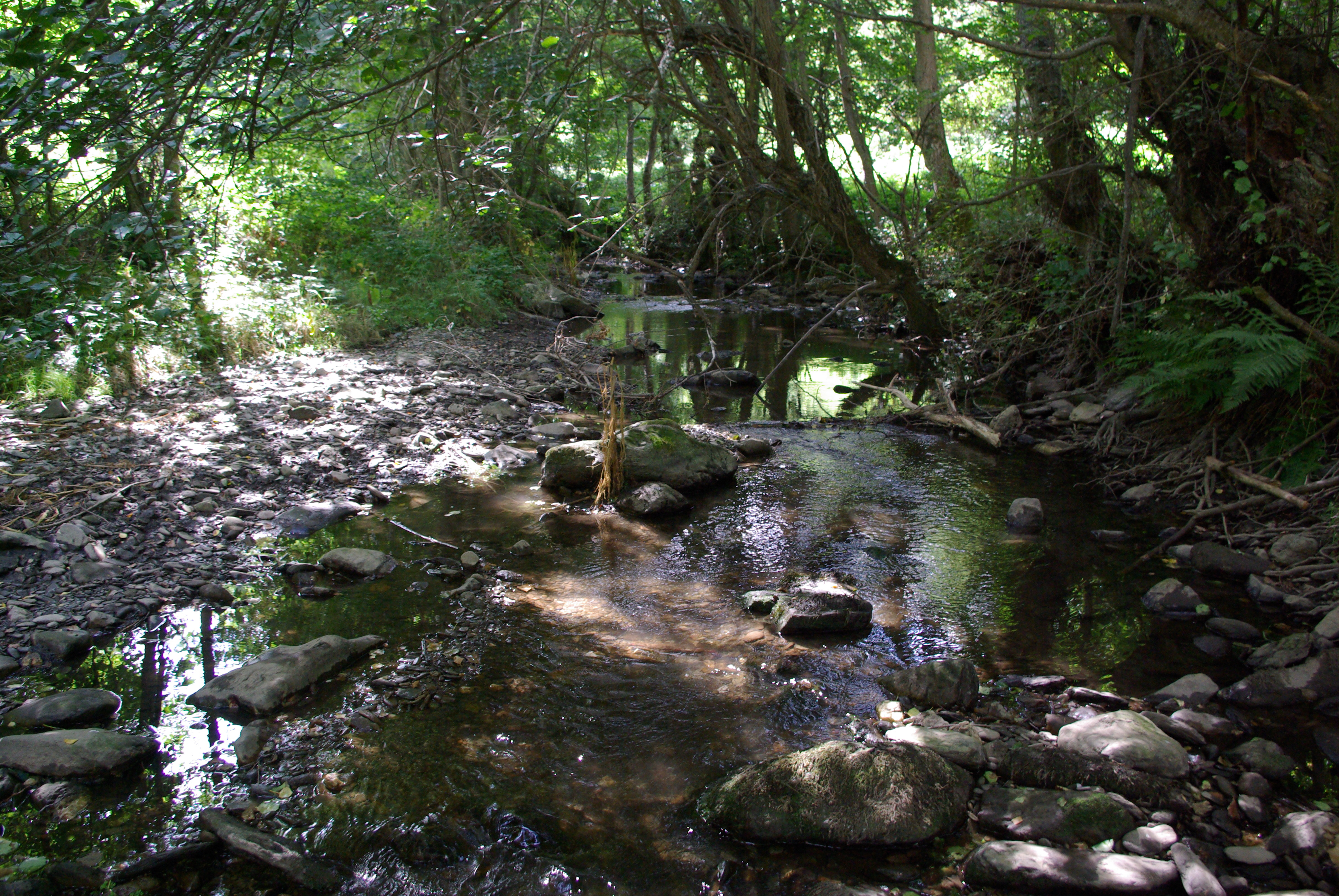 River Silván, Cabrera tributary, Sil basin. Close to Santa Elena's hermitage. La Lomba, León (Spain)